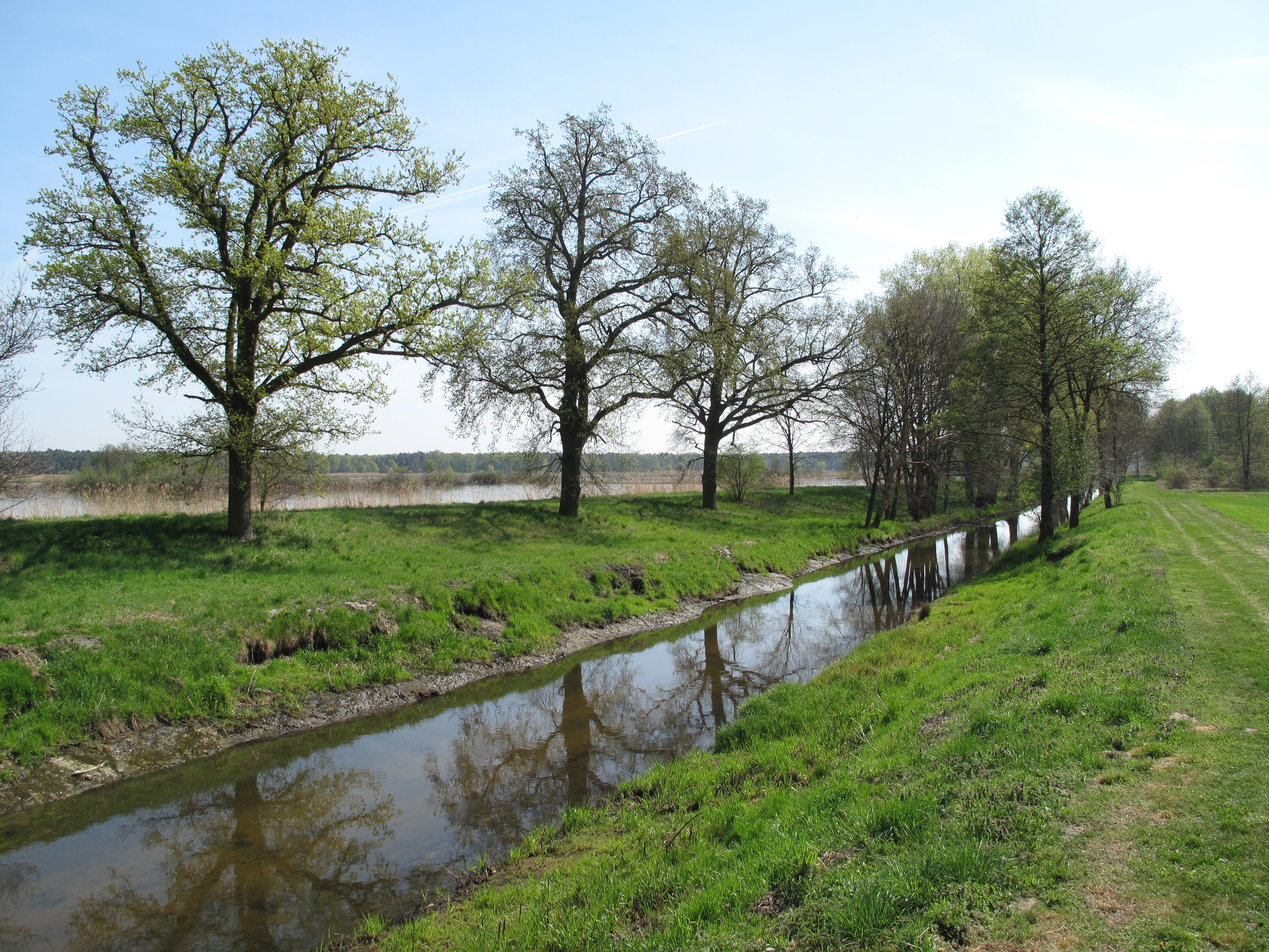 The Kietzer See is a shallow lake in Altfriedland, a village of the municipality Neuhardenberg in the District Märkisch-Oderland, Brandenburg, Germany. The lake covers 206 hectare. It’s the body of water at the center of the European bird protection area Altfriedländer Teich- und Seengebiet (SPA) and is fed by the Stobber.